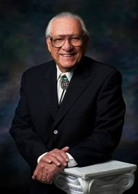 Portrait of Vicente Ximenes